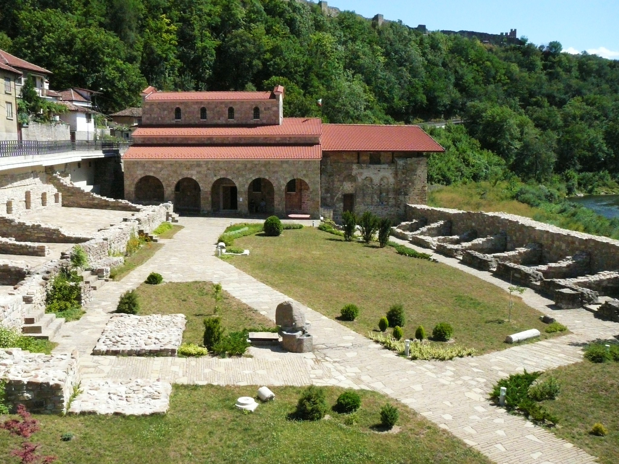 SS.Forty Martyrs Church in Veliko Tarnovo,Bulgaria